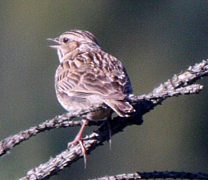 Lullula arborea en , Thursley Common, Surrey, England